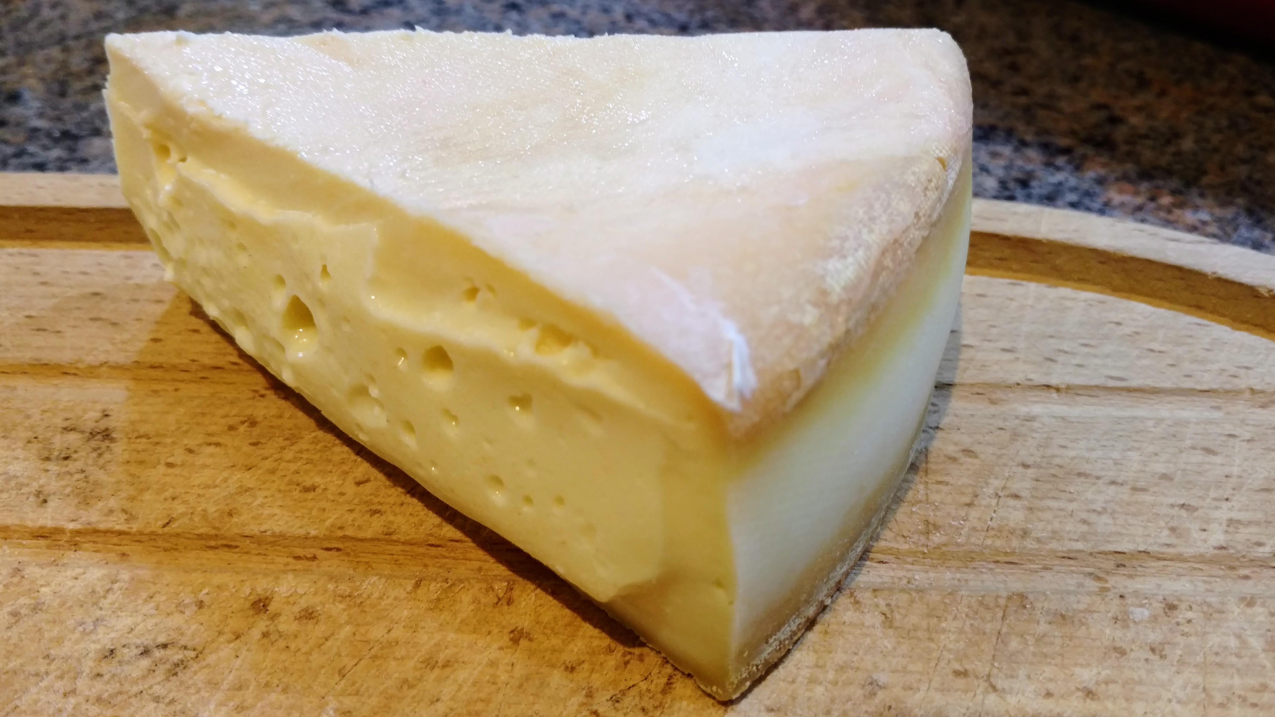 A slice from a wheel of Stinking Bishop cheese. Bought from a delicatessen in Northamptonshire.